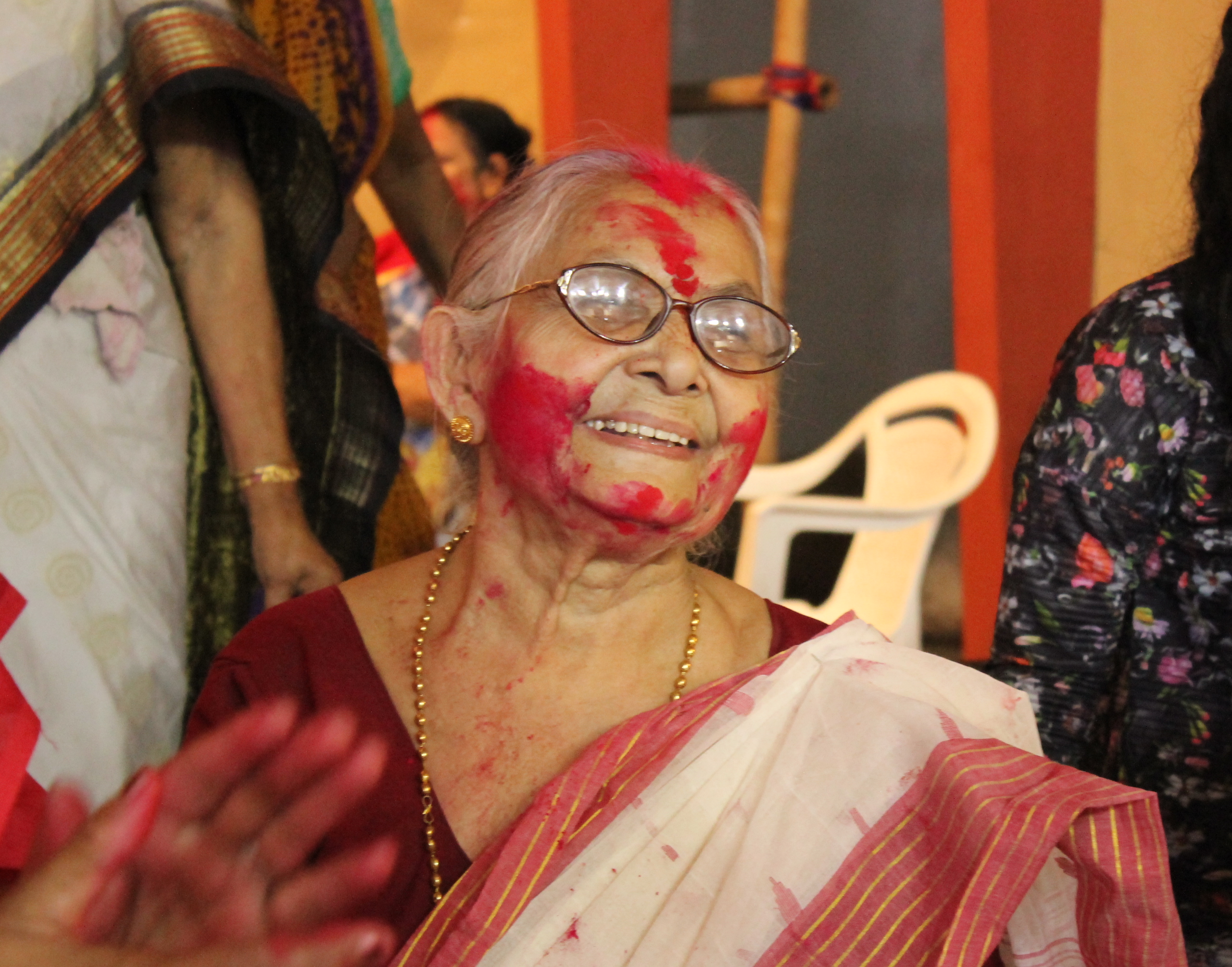 Durga Puja in at Bhopal Madhya Pradesh